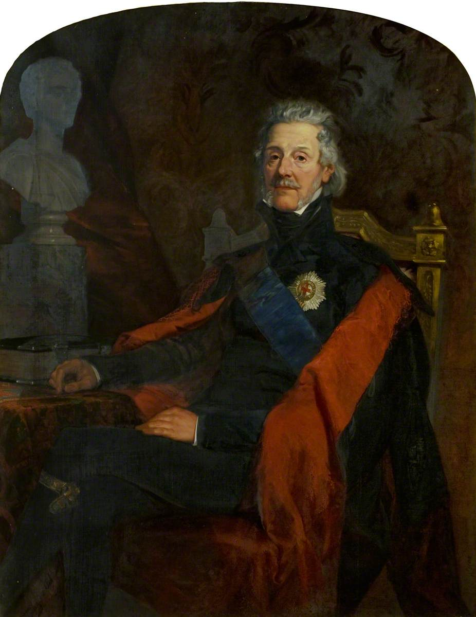 Alexander Hamilton, 10th Duke of Hamilton (1767-1852)